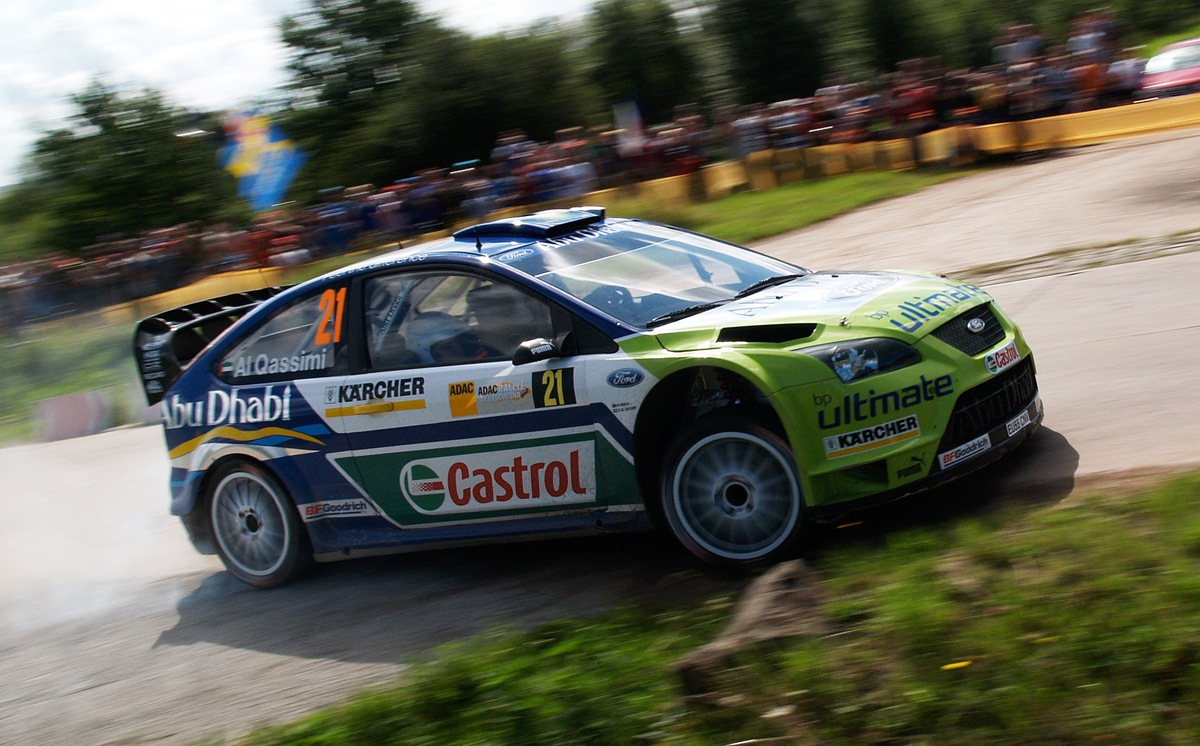 Khalid Al Qassimi / Nicky Beech , Ford Focus RS WRC 06